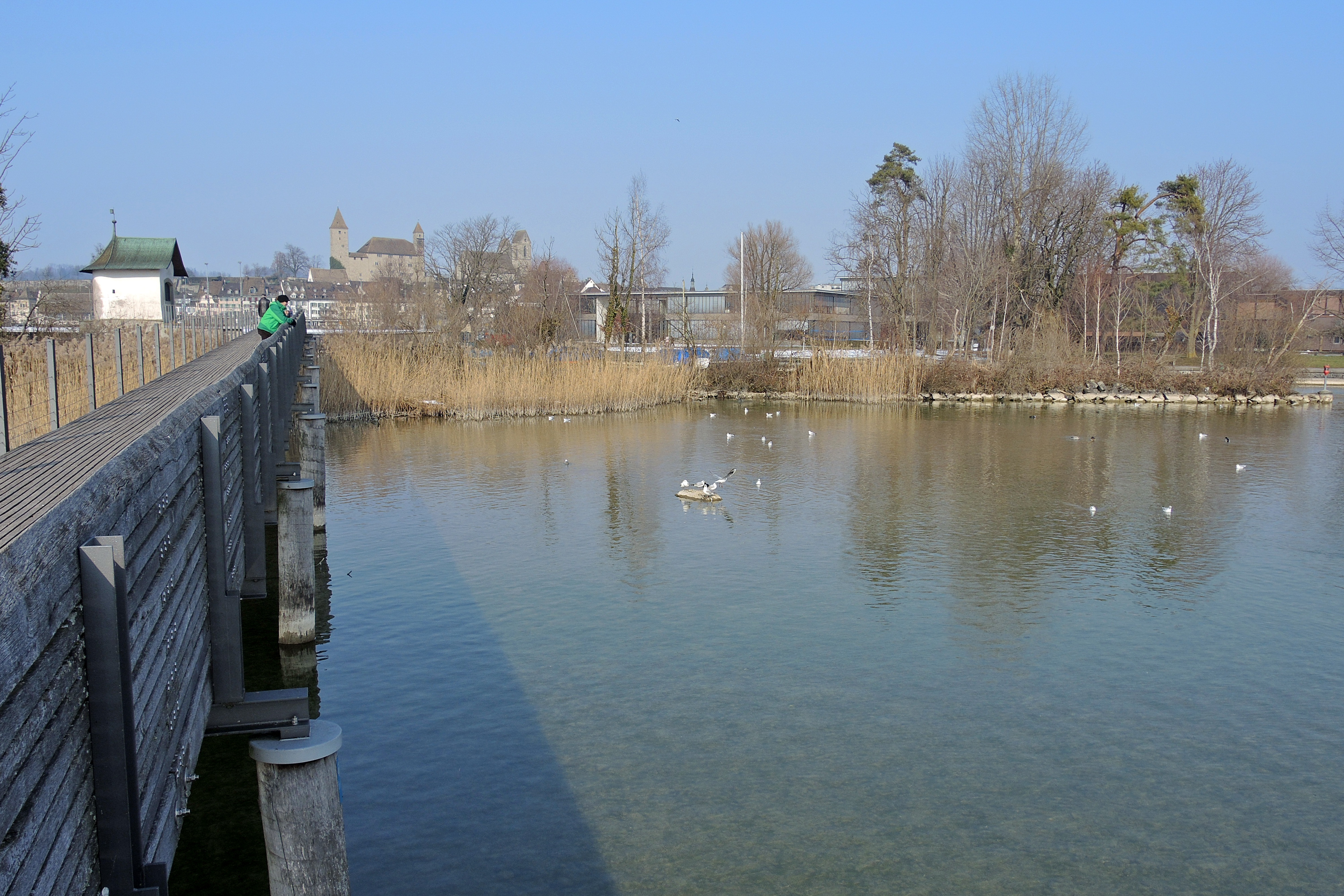 «Heilig Hüsli» chapel in Rapperswil (Switzerland) as seen from the wooden bridge between Rapperswil and Hurden, crossing Obersee (upper Lake Zurich)